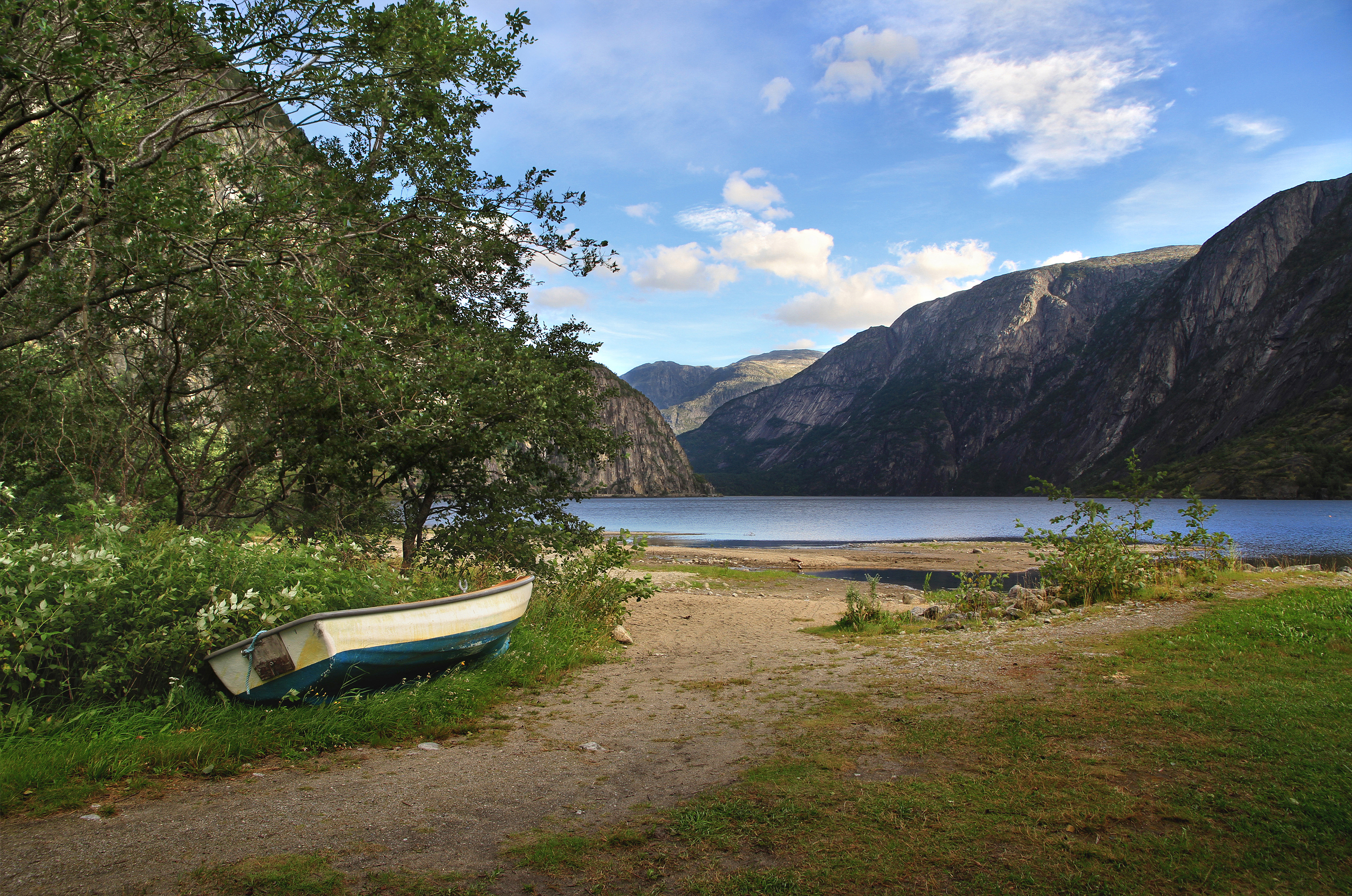 A view to Eidfjordvatnet from the southern end of the lake in the municipality of Eidfjord, Hordaland, Norway in 2011 August.